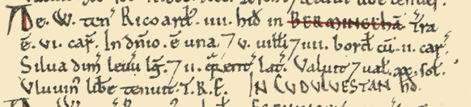 Extract from the Domesday Book showing entry for Birmingham